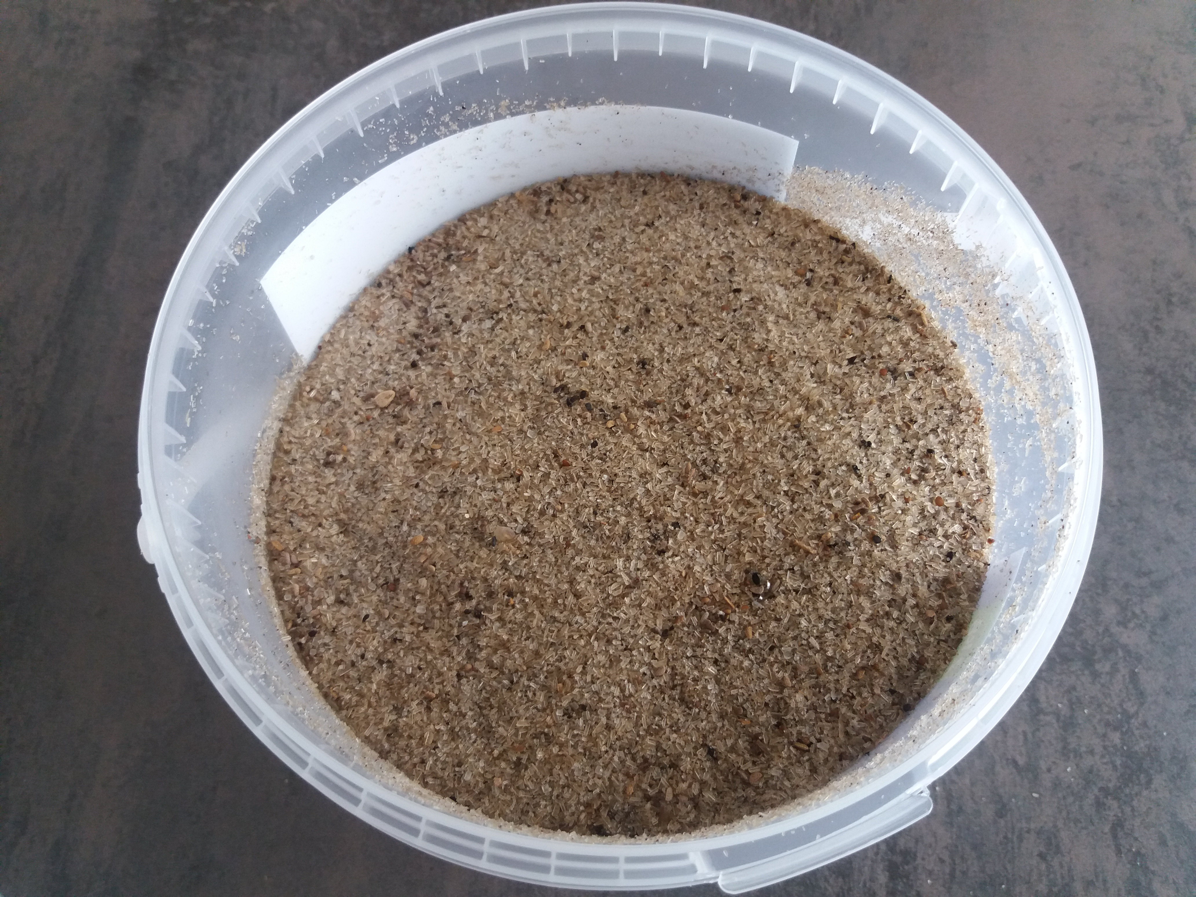 mineral fertilizer "Berliner Pflanze"